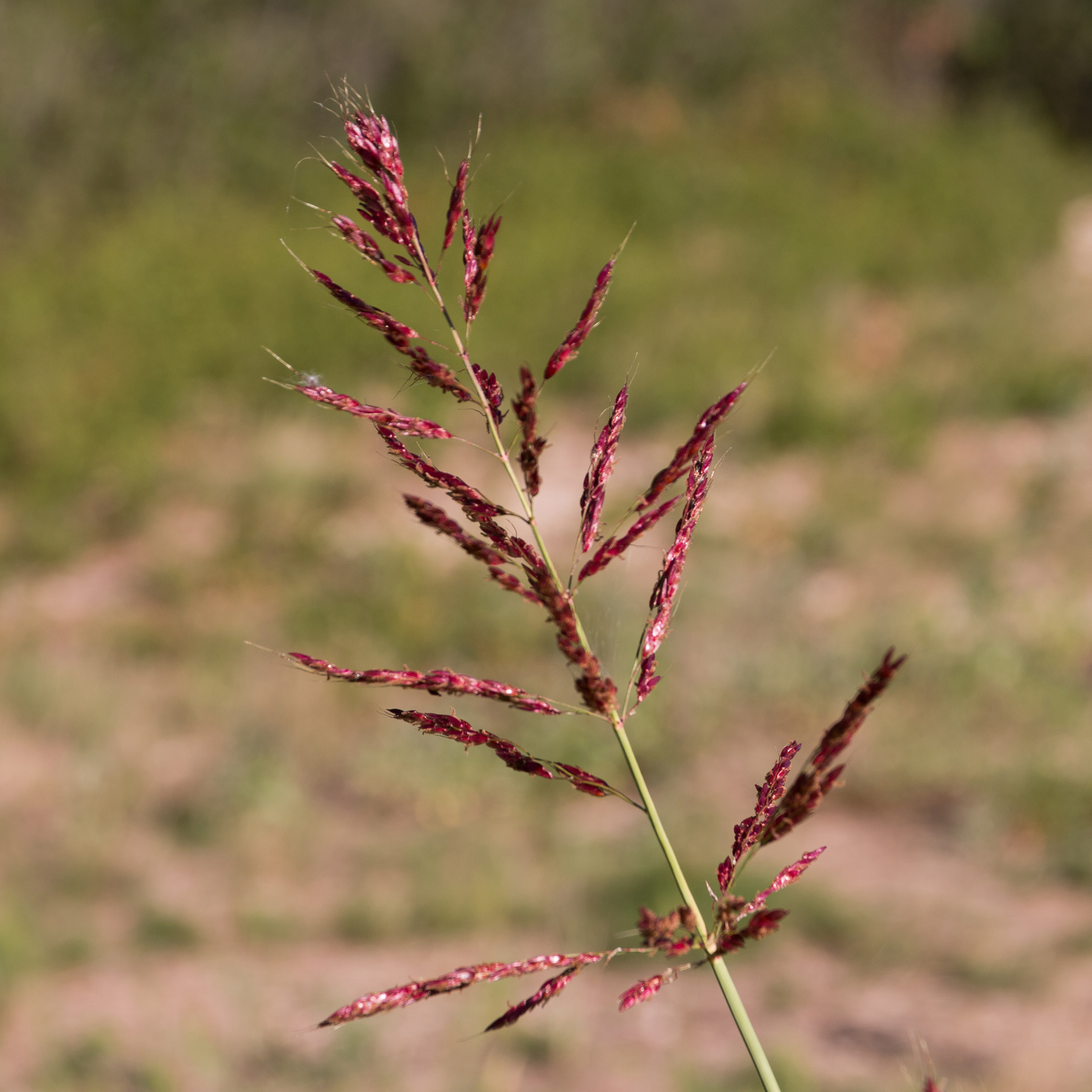 Inflorescence a stem of Johnson grass “Sorghum halepense”.